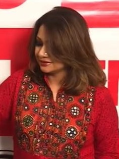 Akhi Alamgir is a Bangladeshi singer and actor.